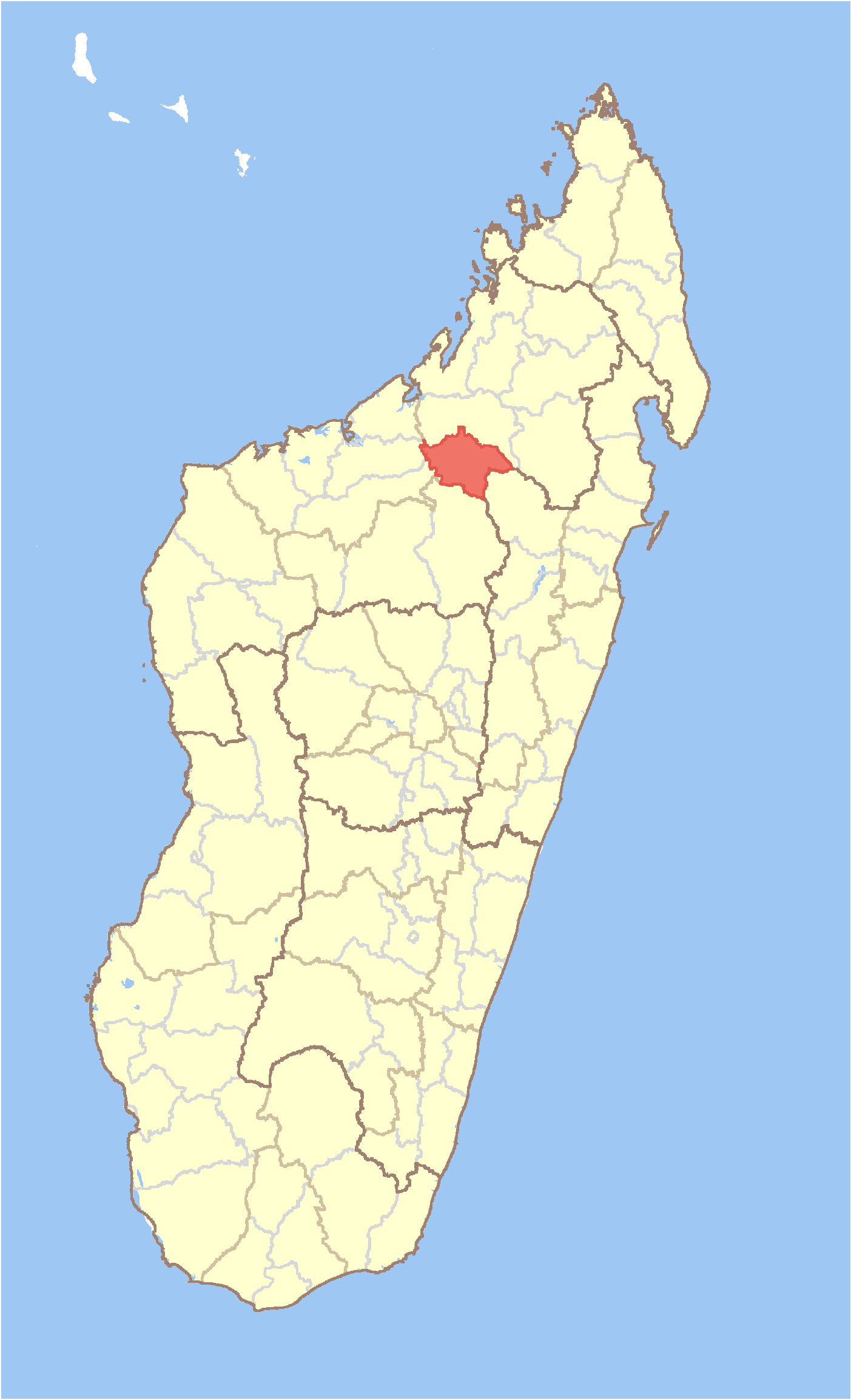 Map of Madagascar with Mampikony highlighted